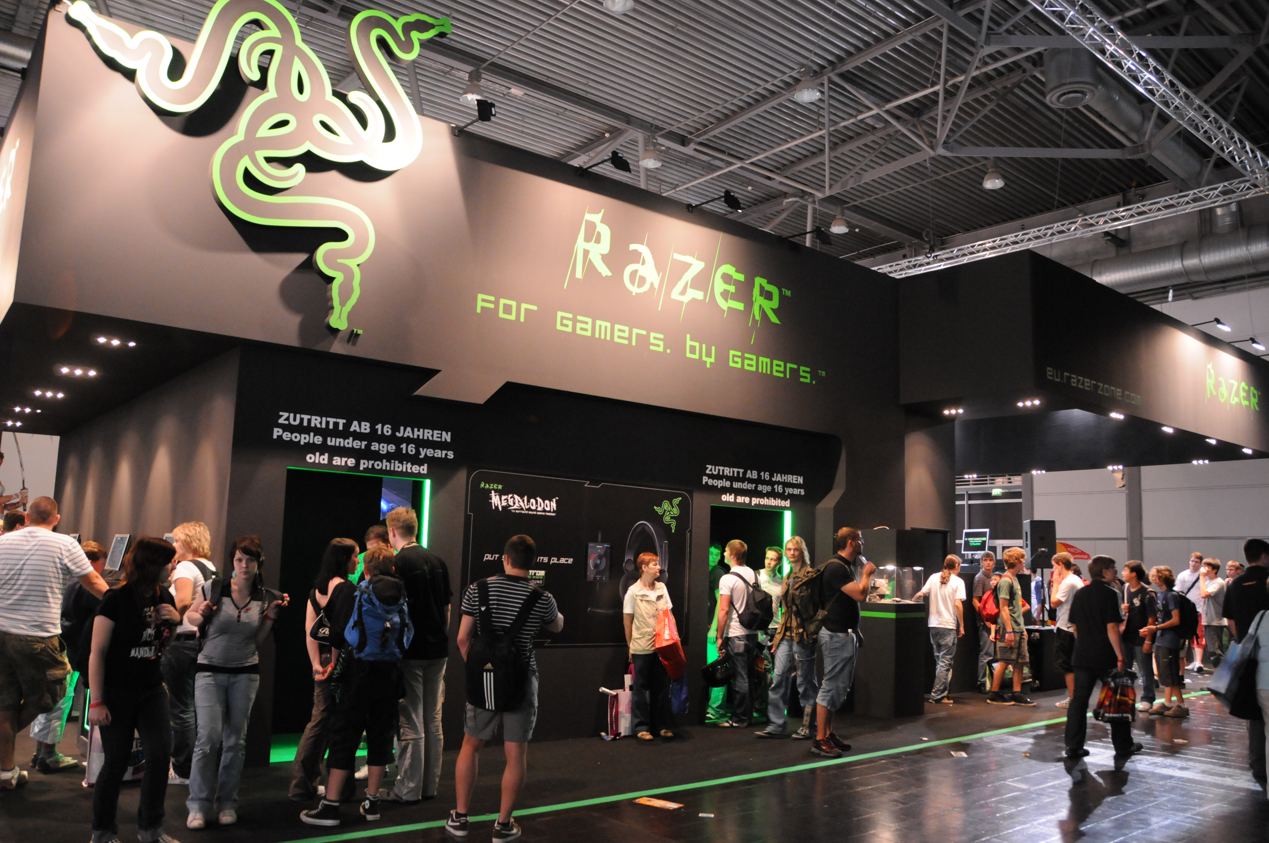 Games Convention 2008, Razer